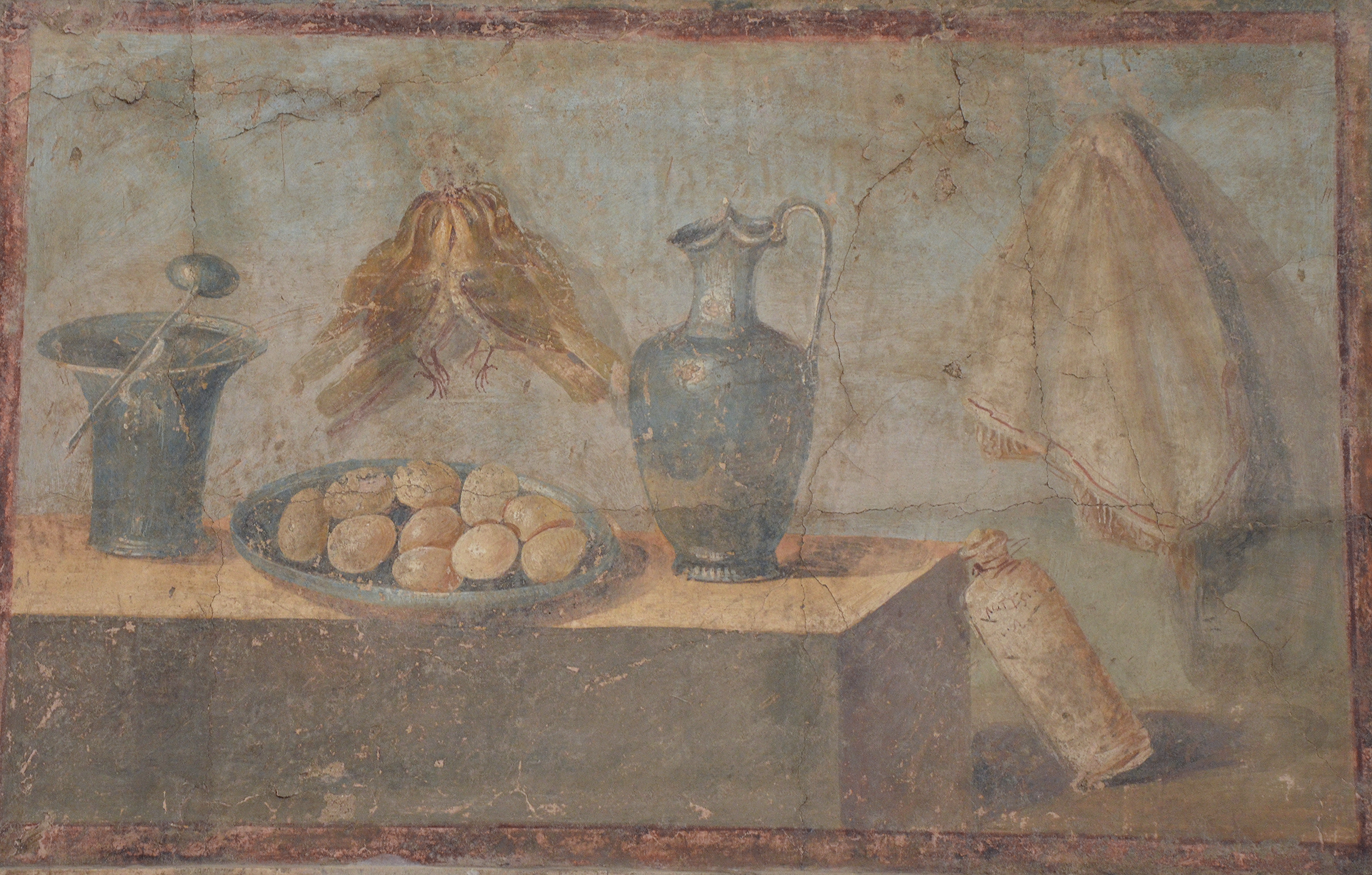 Fresco with eggs, birds and bronze dishes, from the Praedia of Julia Felix in Pompeii, Naples National Archaeological Museum